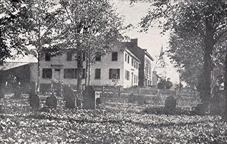 View in oldest part of village cemetery. Memorial Building and Baptist Church in the distance," Hopkinton, NH; from "The Settlement of a Town," an article in Granite Monthly Magazine, 1901